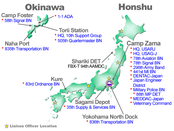 Map showing locations of units assigned to U.S. Army, Japan